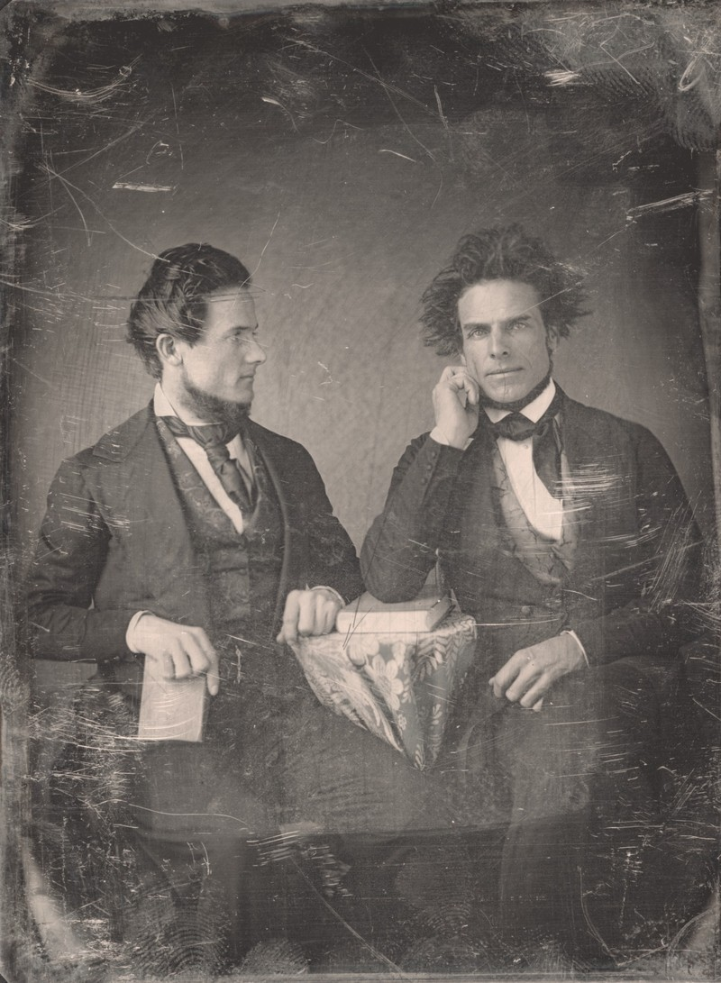 Portrait of Thomas Easterly with an unidentified man.